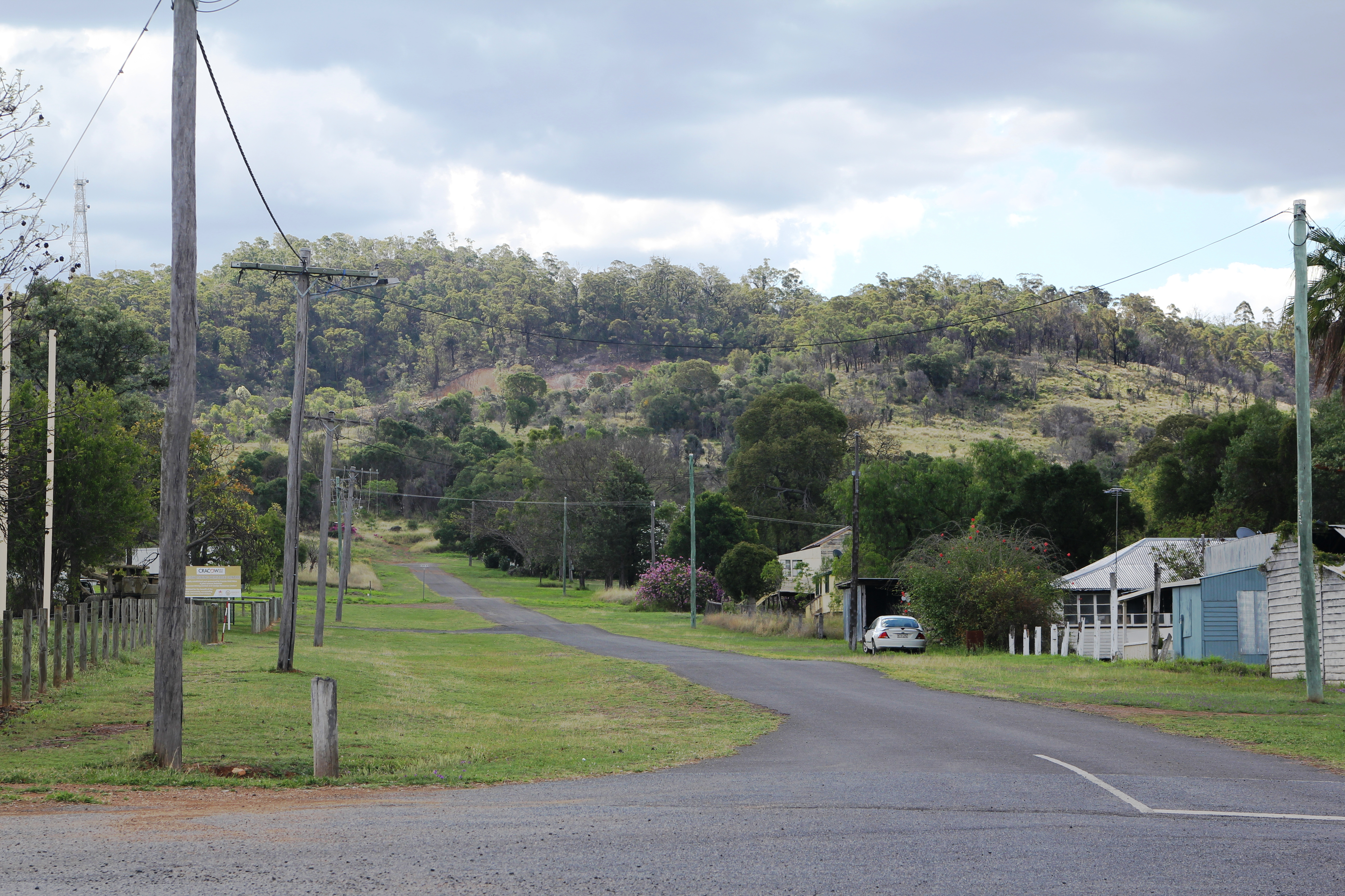 Looking down 3rd Avenue in Cracow, Queensland.